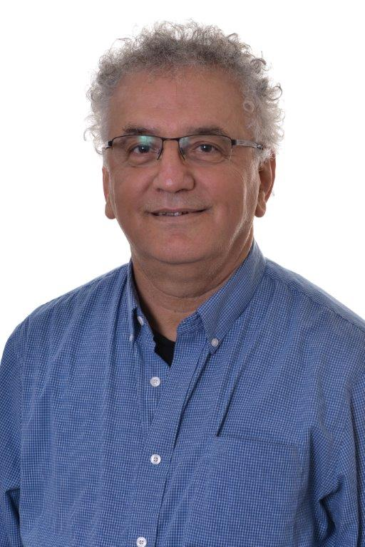 Prof Yossi Dahan .